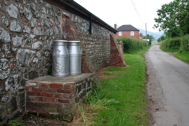 Milk churns on stand, Hollybed Street. Used in older times for the collection of milk from small farms. Placed on a stand for the milk lorry to arrive. Now purely ornamental. One of these belonged to "Cadbury Bros Ltd" and the other "M & P Dairies".